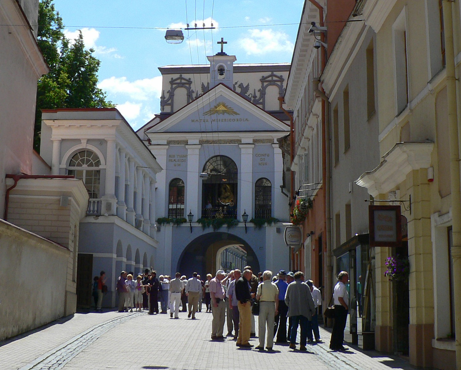 Dawn Gate, Vilnius, Lithuania